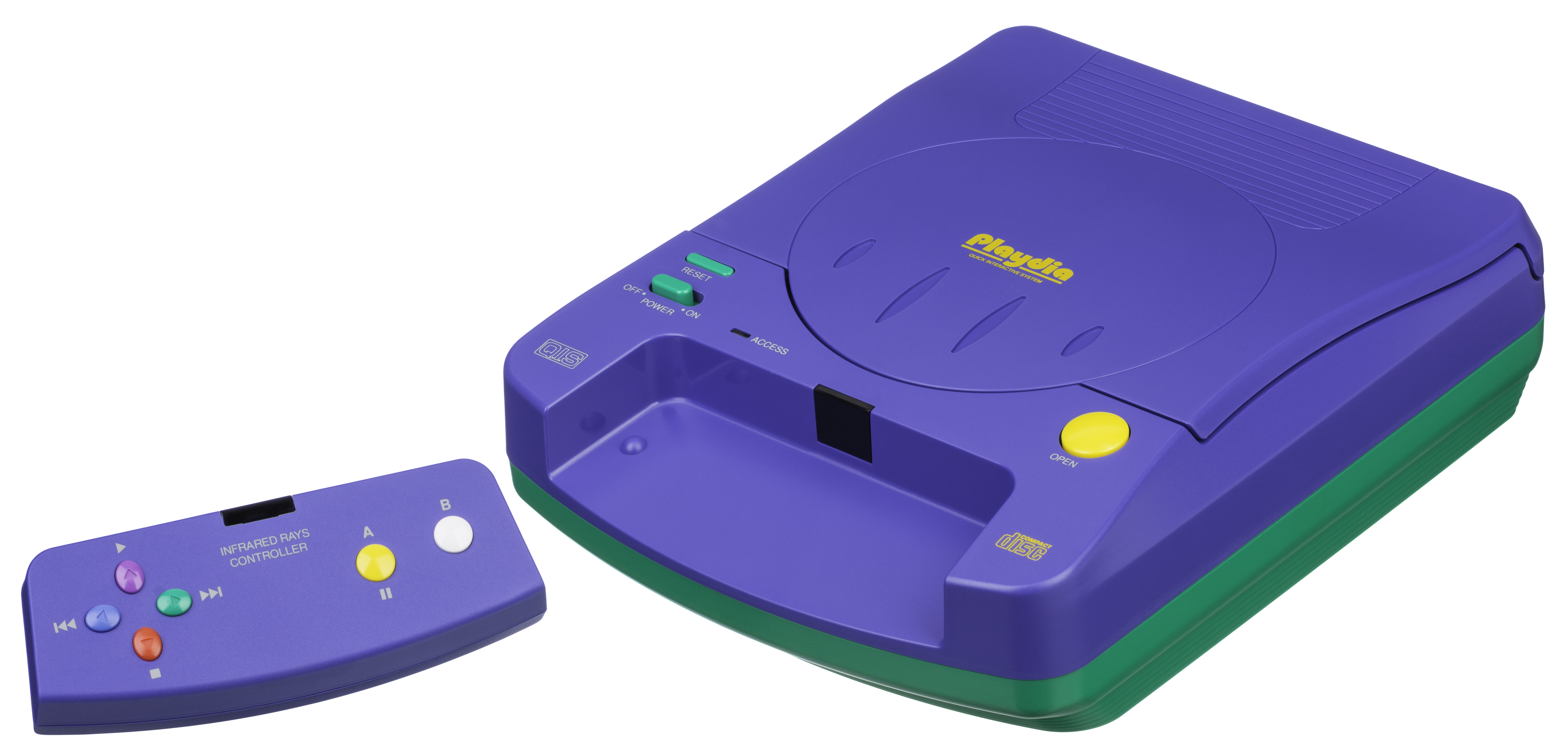 The Bandai Playdia, a video game console that was only released in Japan. The Playdia came out in 1994 and was intended for a young audience. It has a small library of games mostly comprised of anime-themed edutainment titles.